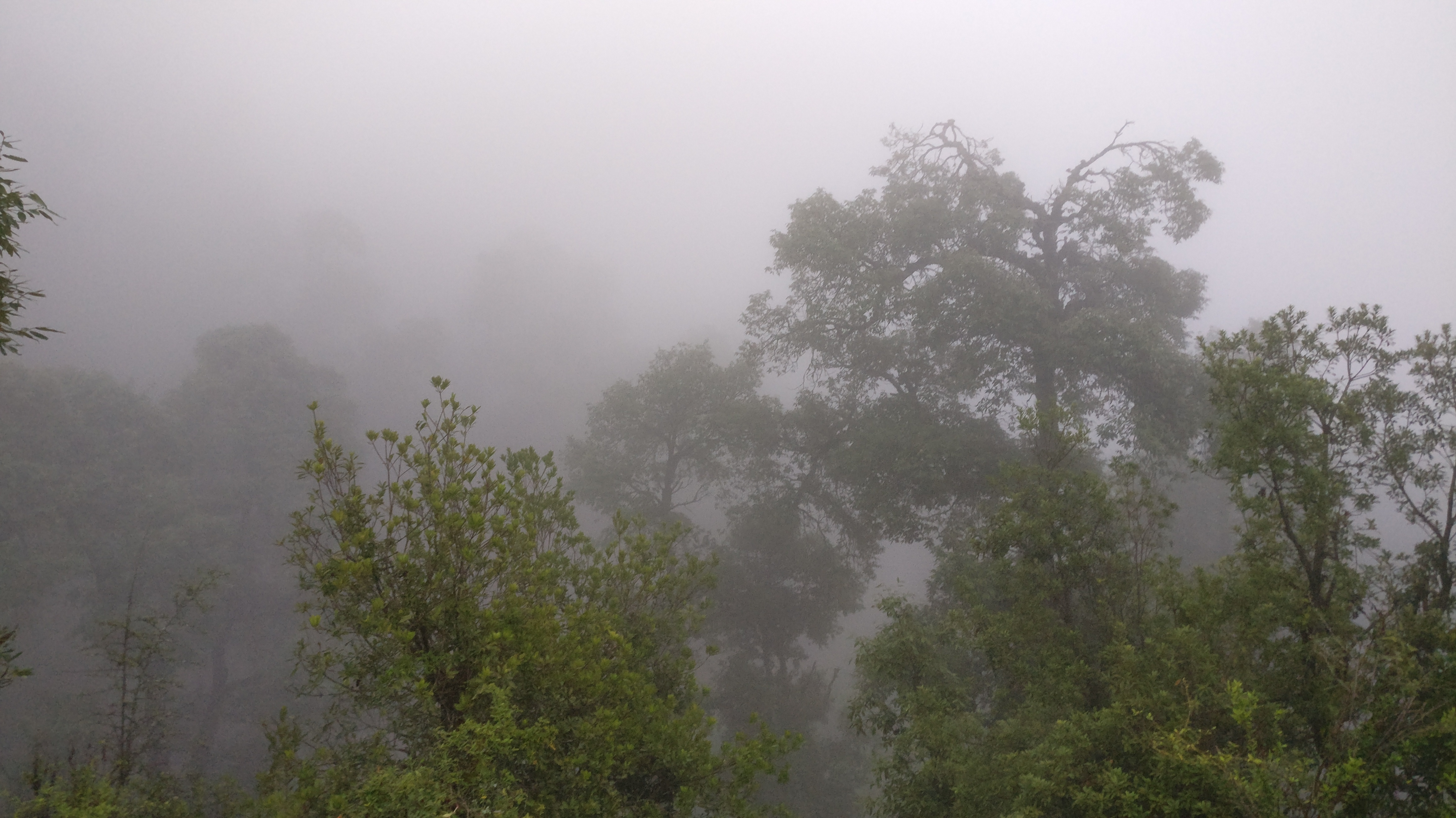 Dense Fog in Bhargaon